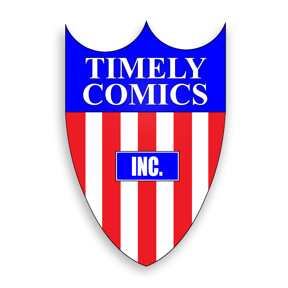 Photoshop illustration representing a variant of the Timely Comics logo used throughout the 40s by the Goodman Group/Marvel Comics. No copyright was violated in the production of this image. Stripes, colors, geometric shapes and individual words are not subject to individual copyright. Educational purpose: to illustrate articles relating to Marvel Comics. Based on this file, modified by Simon J. Kirby. Present version released under CC-zero. The author agrees that Commons is not censored and that international wikimedia projects have the right to reuse this image.